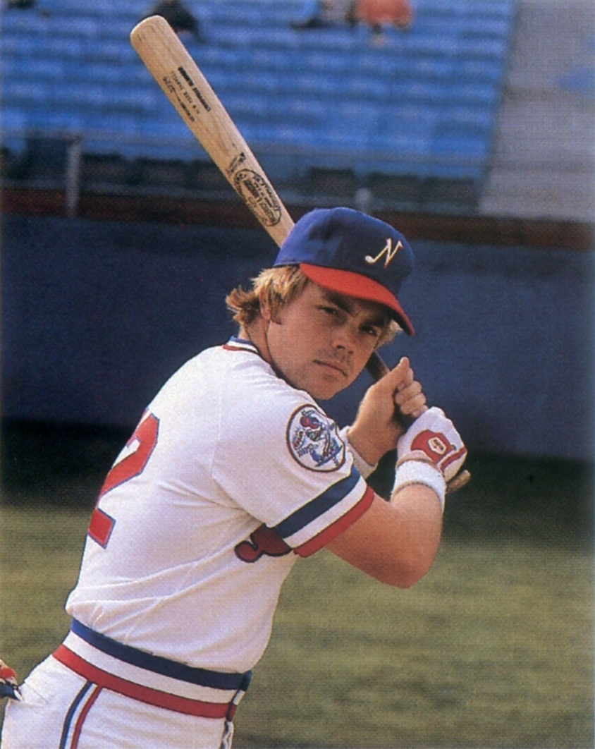 First baseman Buck Showalter of the 1982 Nashville Sounds Minor League Baseball team of the Southern League (photo taken during the 1980 season)